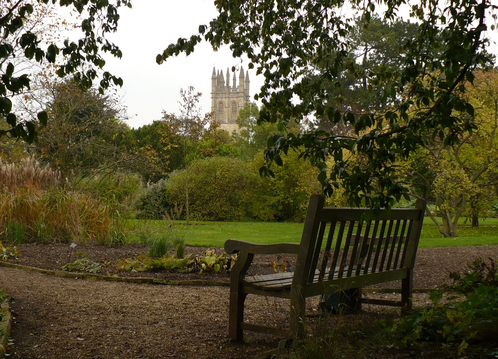 Oxford Botanic Garden in the snow with Magdalen Great Tower in the background. A photograph of Will's Bench from Philip Pullman's book 'The Amber Spyglass'. October 7, 2007.